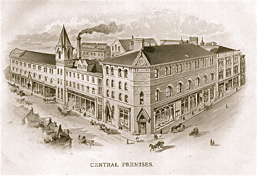 Lincoln Co-operative Society, Silver Street. 1872